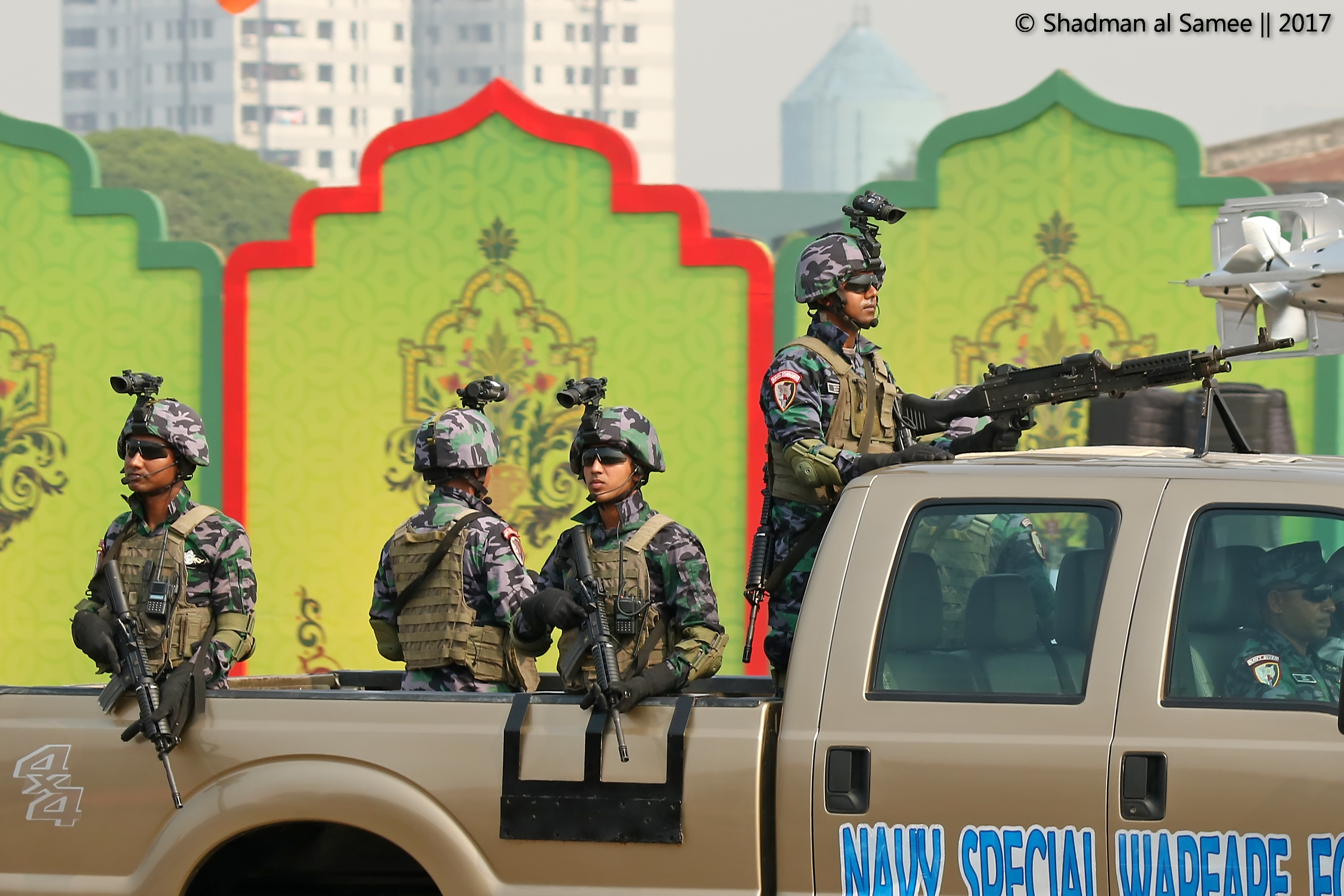 Standard-bearer